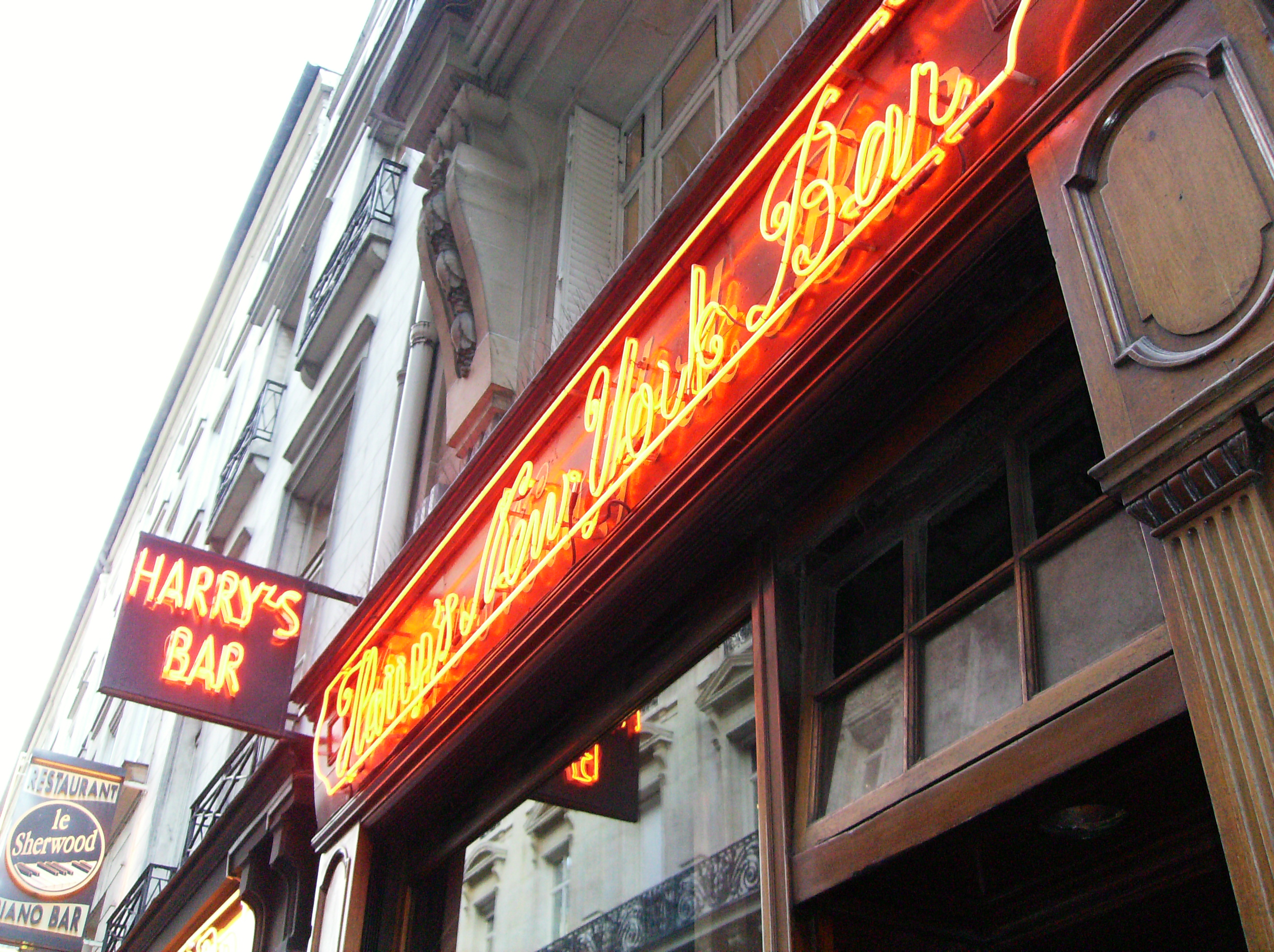 Neon Sign of Harry's New York Bar in Paris, France